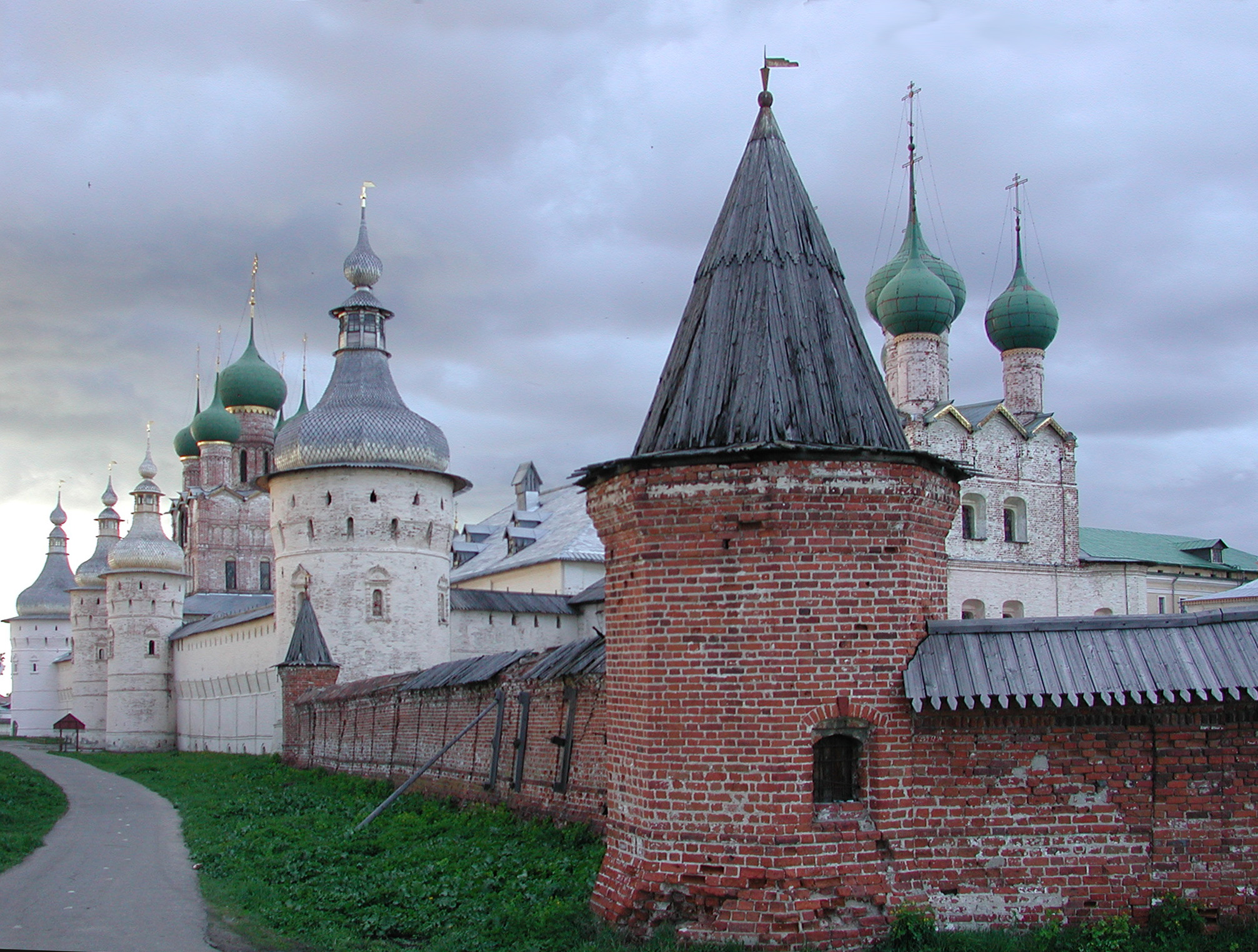 Partial view of the Kremlin of Rostov, Yaroslavl Oblast.